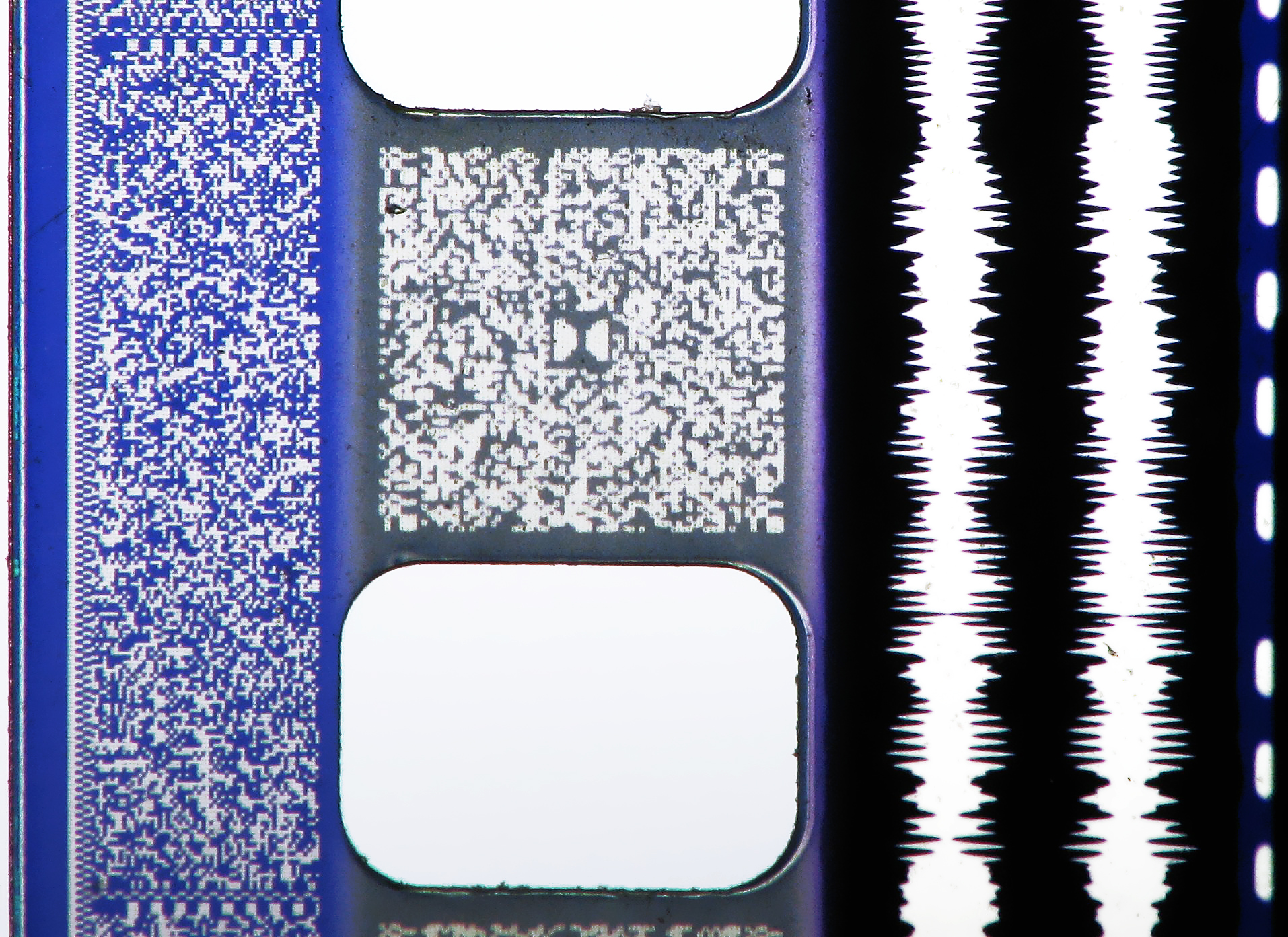 Macro of 35mm film audio tracks, from left to right: Sony SDDS, Dolby Digital, analog Optical, and finally DTS time code.